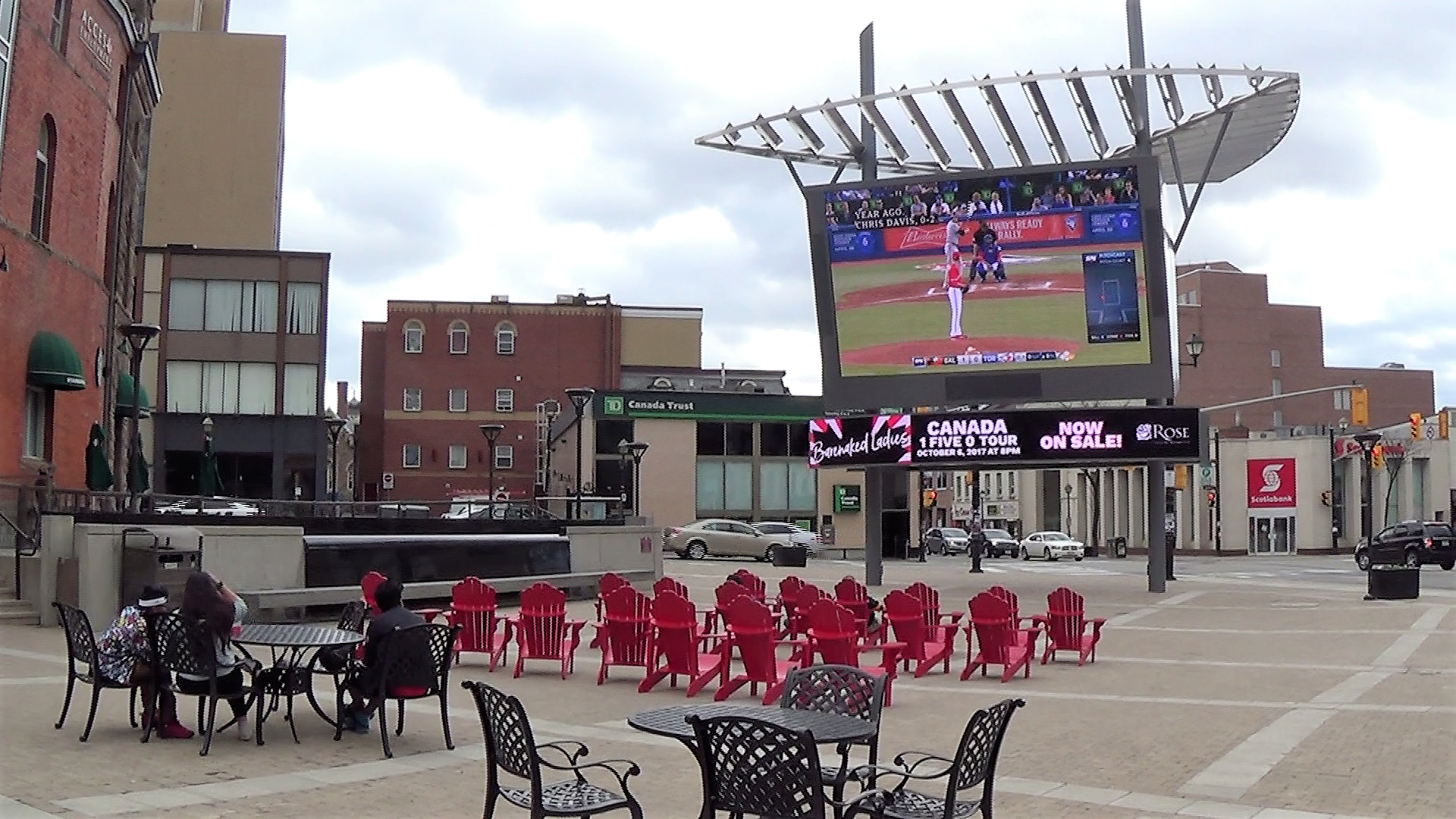 LCD video screen at Garden Square in Brampton, Ontario, Canada